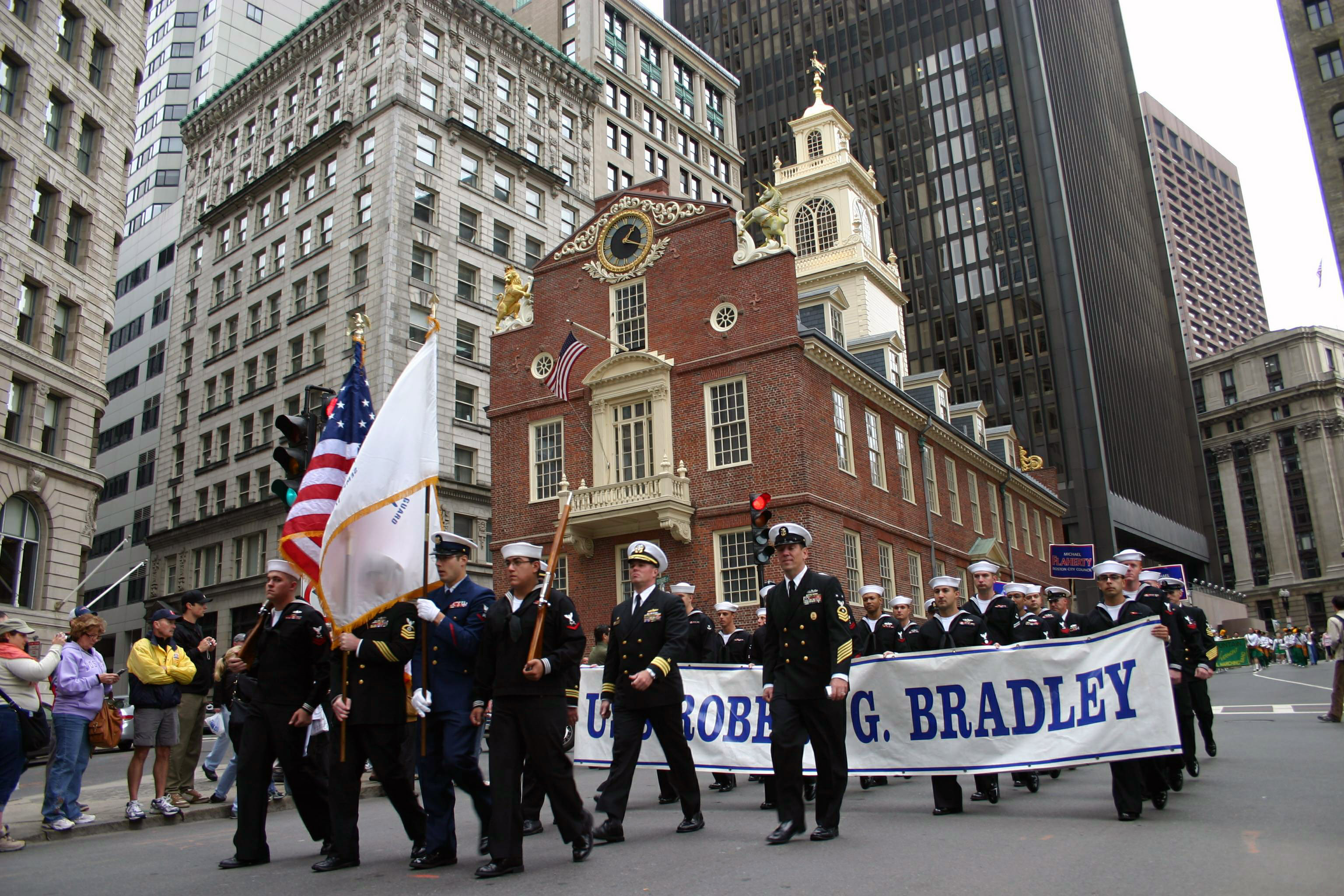 BOSTON, Mass. (Oct. 7, 2007) – Crew members of the guided-missile frigate USS Bradley (FFG 49) pass the Old State House in downtown Boston during the annual Columbus Day Parade. The Bradley is in Boston for a four-day port visit. The parade was just one of several planned events for the Sailors during their holiday visit including a community service project at the New England Shelter for Homeless Veterans and the presentation of colors at the New England Patriots game. U.S. Navy photo by Chief Mass Communication Specialist Dave Kaylor (RELEASED)